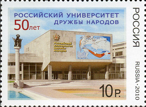 50th Anniversary of Peoples' Freindship University of Russia